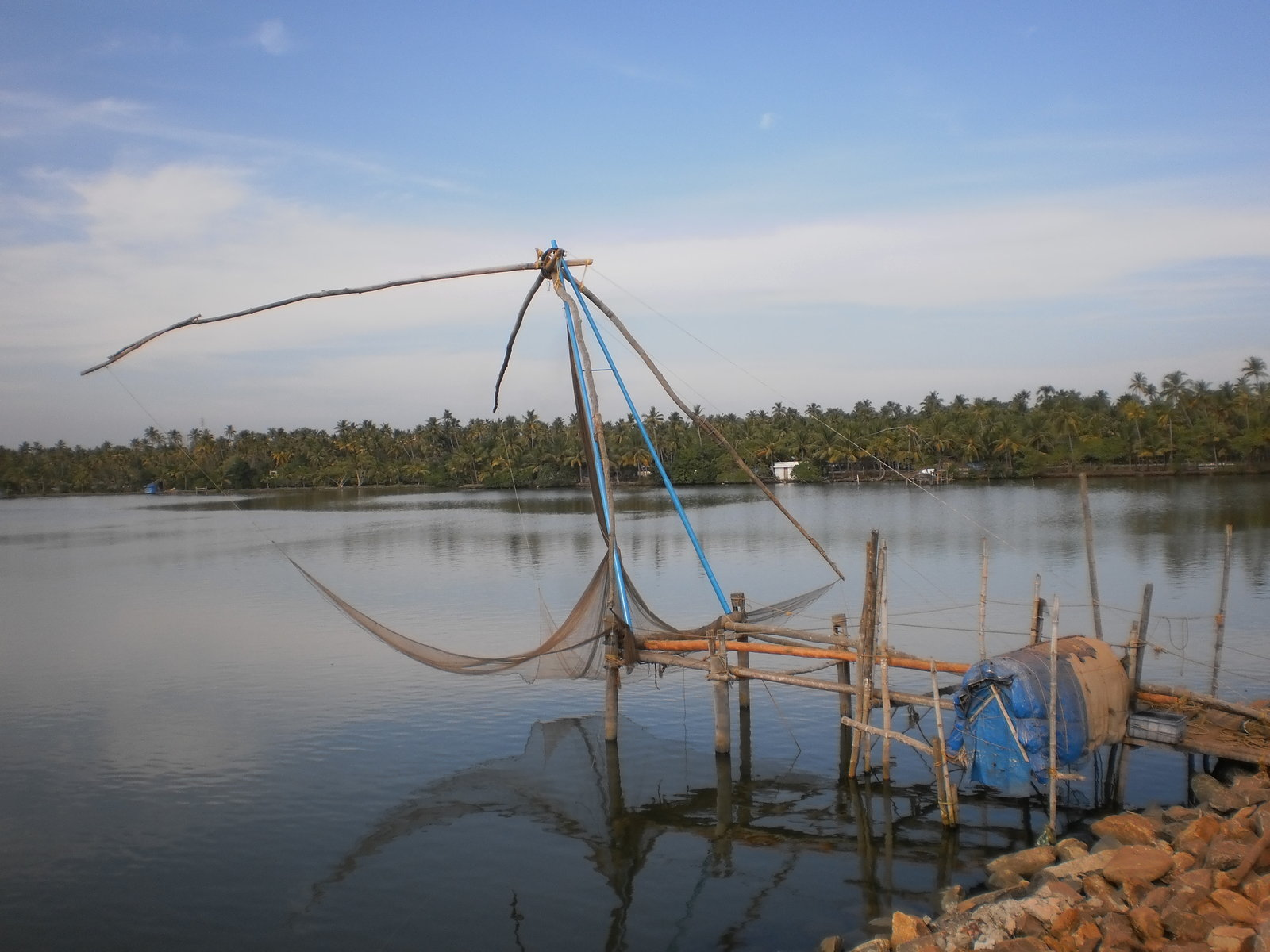 China Fishing Net or Cheena Vala near Cherai Beach This media file is uploaded with Malayalam loves Wikimedia event - 2.